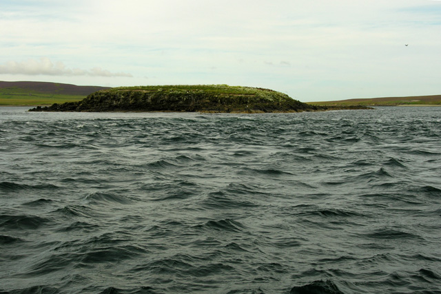 Holm of Boray with its ebb "rost" in full flow Holm of Boray is home to a colony of Cormorants, Great Black-backed Gulls and the occasional Common Seal. Best not mention the Legend of Boray Holm!